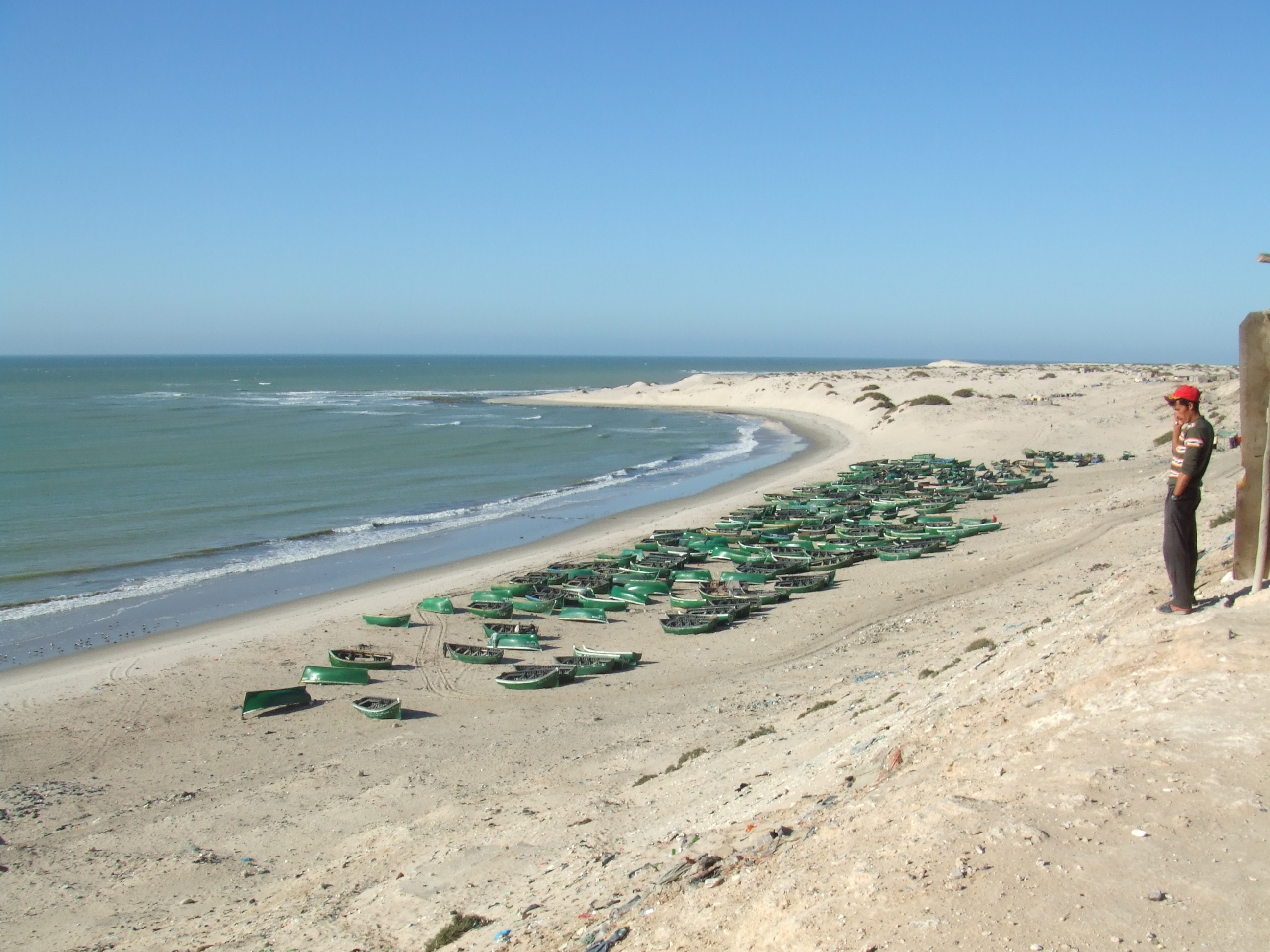 Probably the village of Chicas, between Dakhla and Nouadhibou, as reported in the photographer's 27 December 2007 blog entry.